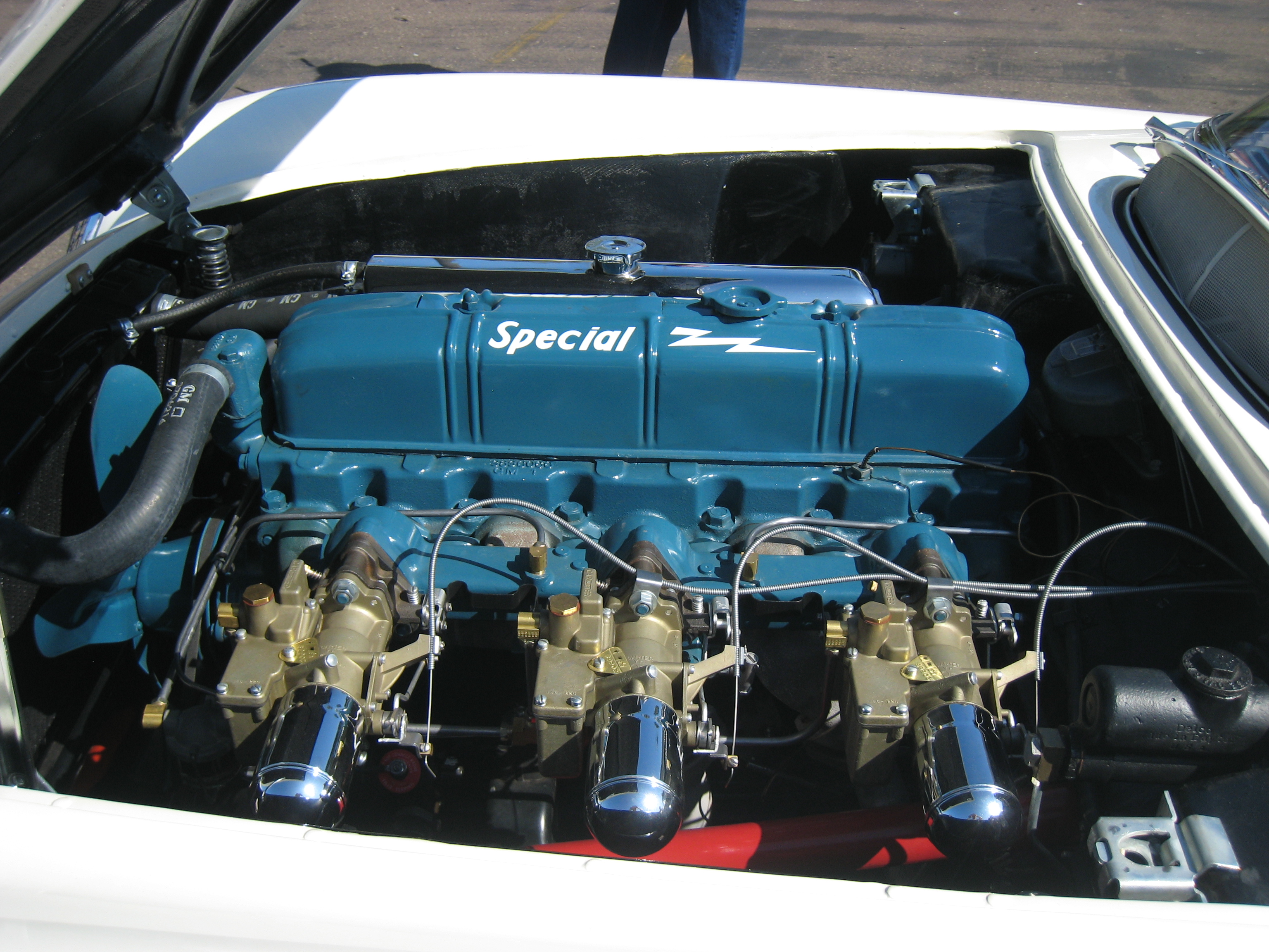 Blue Flame in-line 6 engine on a 1953 Corvette convertible. I took these pictures at the 2012 National Corvette Restorers Society annual car show. It took place in San Diego, CA this year. I was told that this particular car was the 13th car rolled off the Corvette production line.